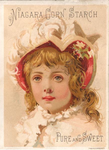 Persistent URL: Subject (TGM): Children; Girls; Bonnets; Starch industry; Flour & meal industry